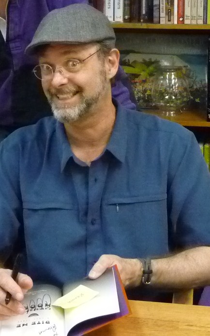 Author Christopher Moore signing his book "Bite Me" at the Politics and prose bookstore in Washington, DC.